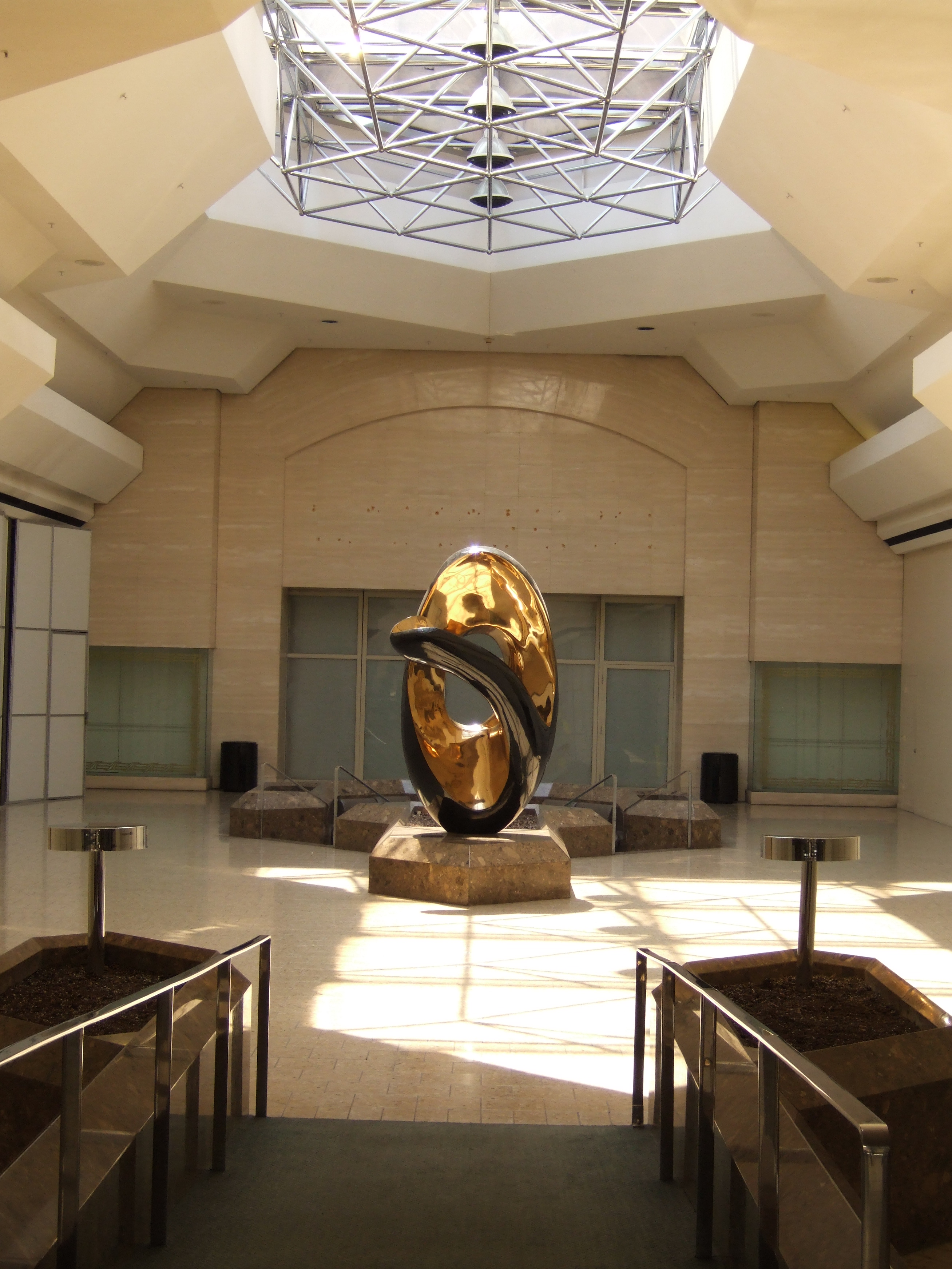 The former entrance to Lazarus at Columbus City Center Mall. Self made photo.